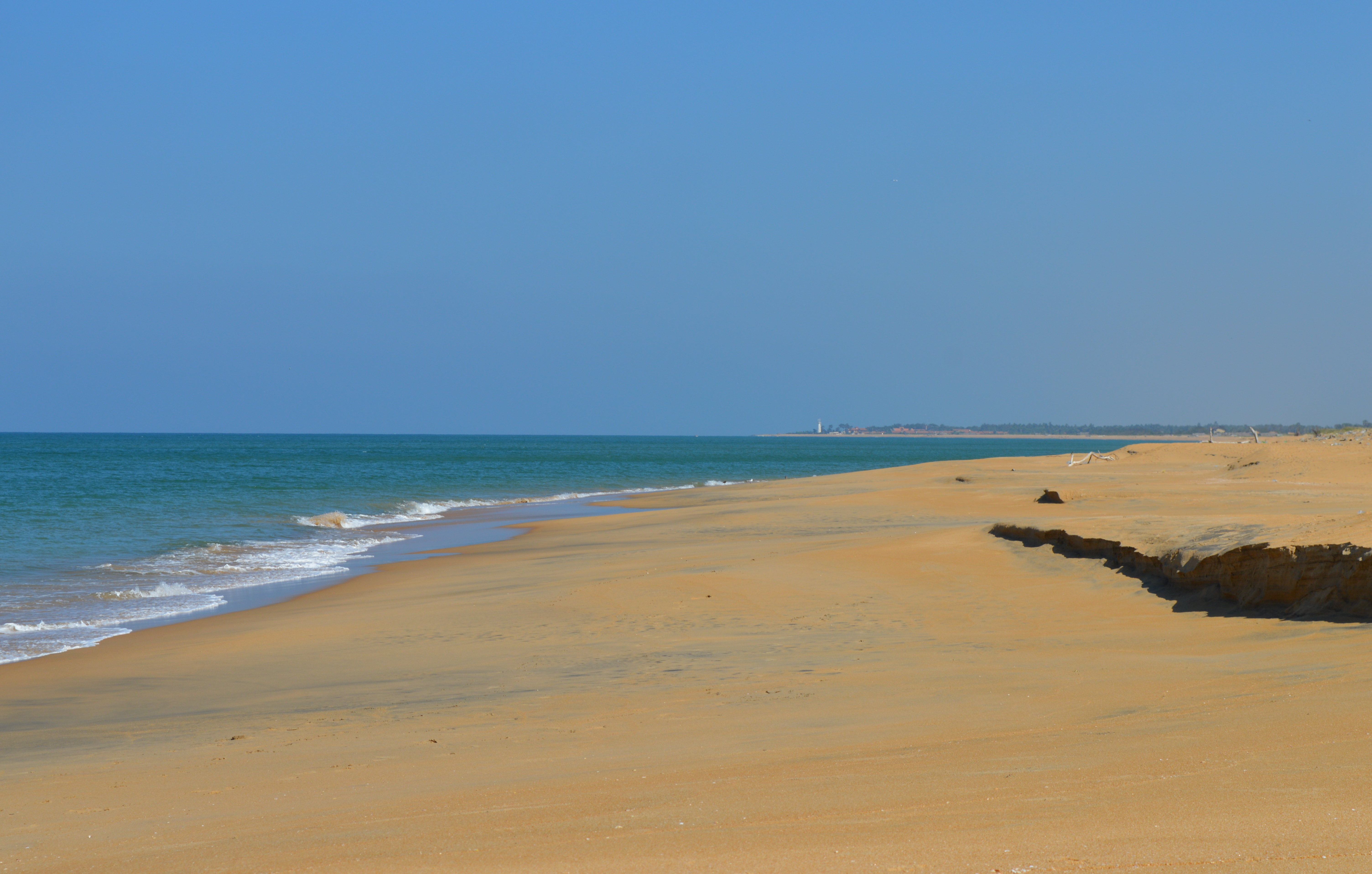 Alankuda Beach, Sri Lanka